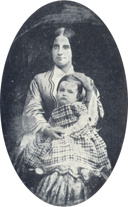 A daguerreotype of Maria Isabel, Countess of Iguaçu, holding one of her children in her arms, c.1852. She was an illegitimate daughter of Emperor Dom Pedro I of Brazil